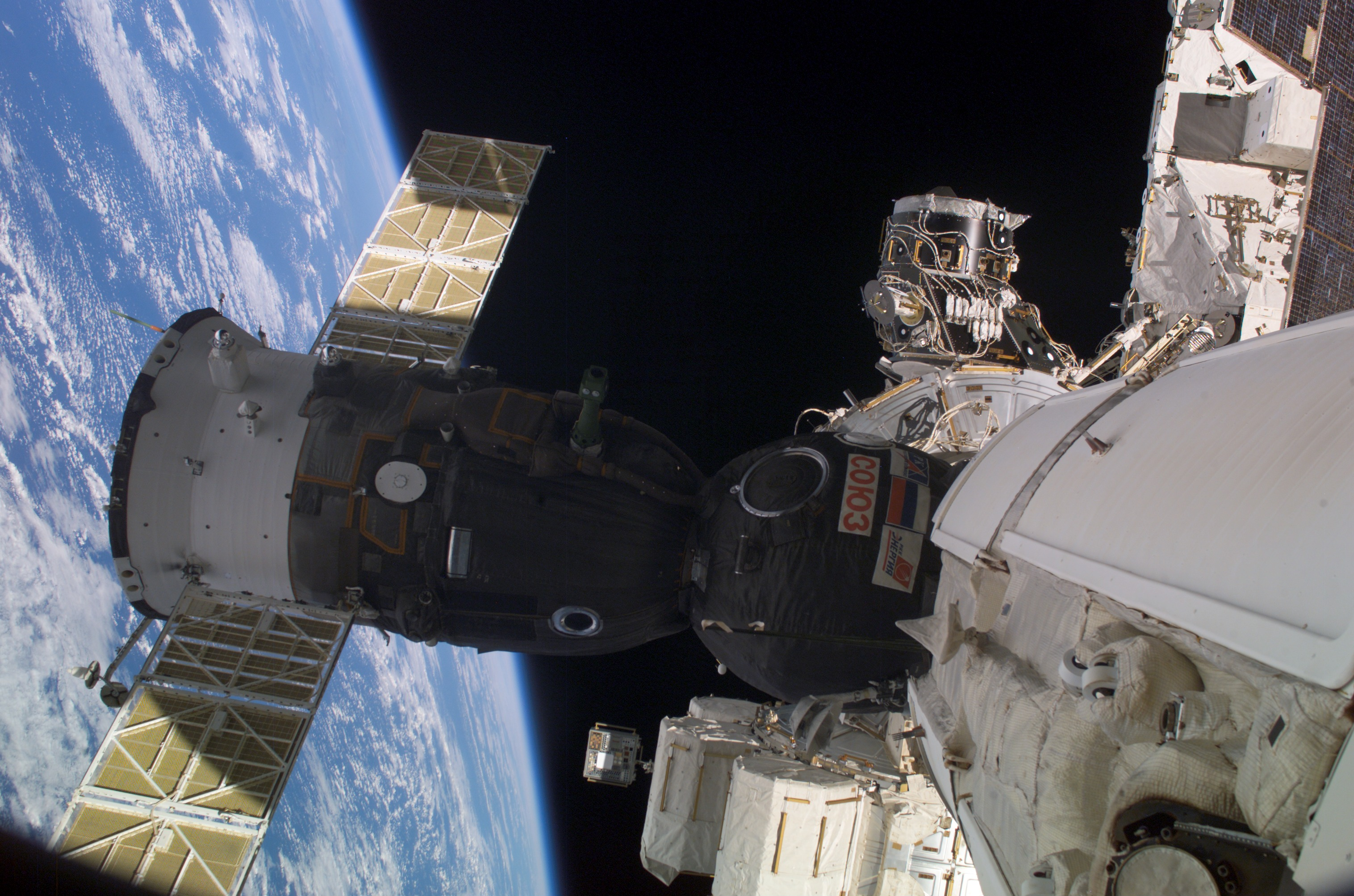 Soyuz TMA-2 docked to ISS during Expedition 7. The Soyuz TMA-2 spacecraft, docked to the functional cargo block (FGB) nadir port on the International Space Station (ISS), was photographed by an Expedition Seven crewmember. The blackness of space and Earth's horizon provide the backdrop for the scene.